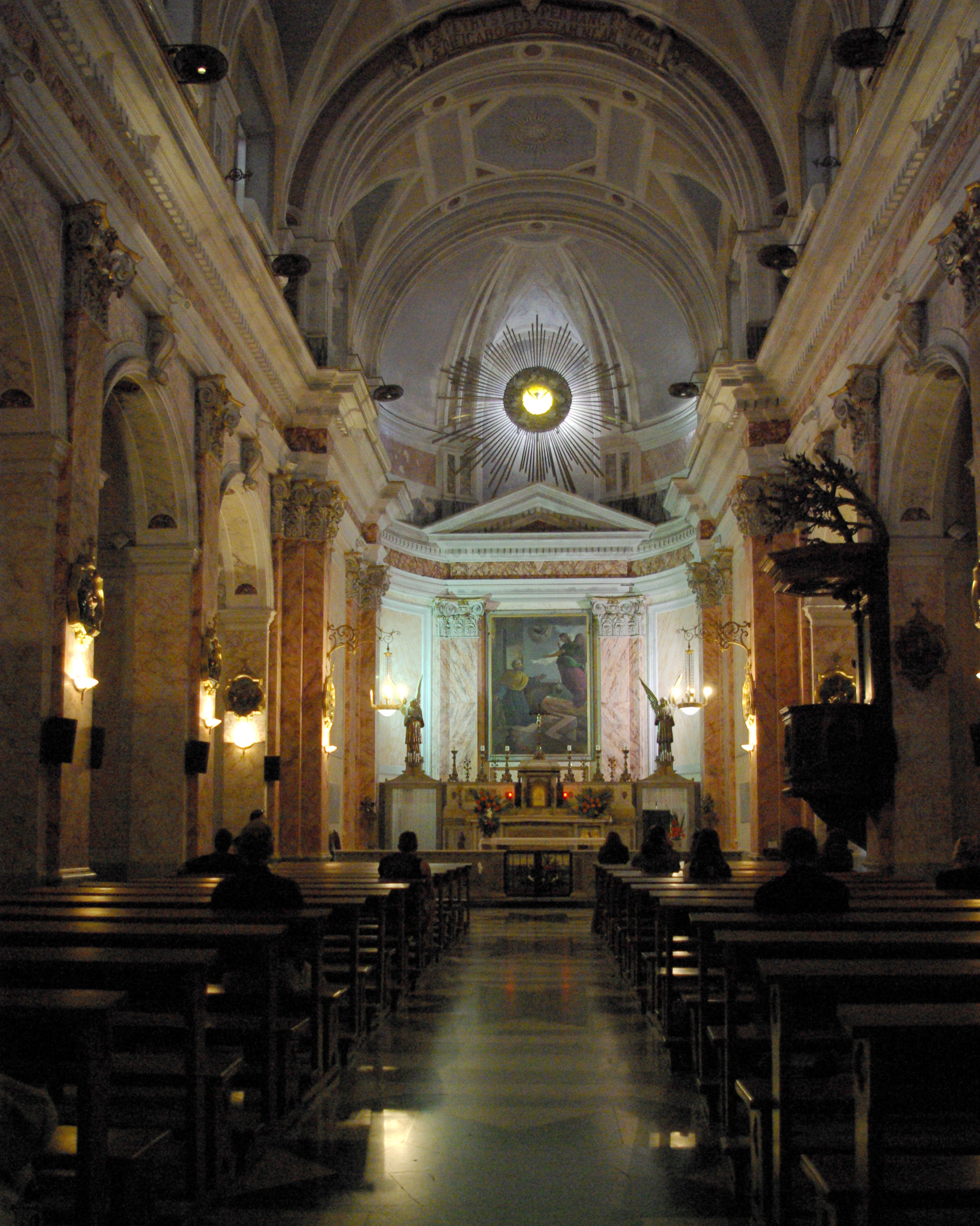 Tel Aviv Yaffo, St. Peters church